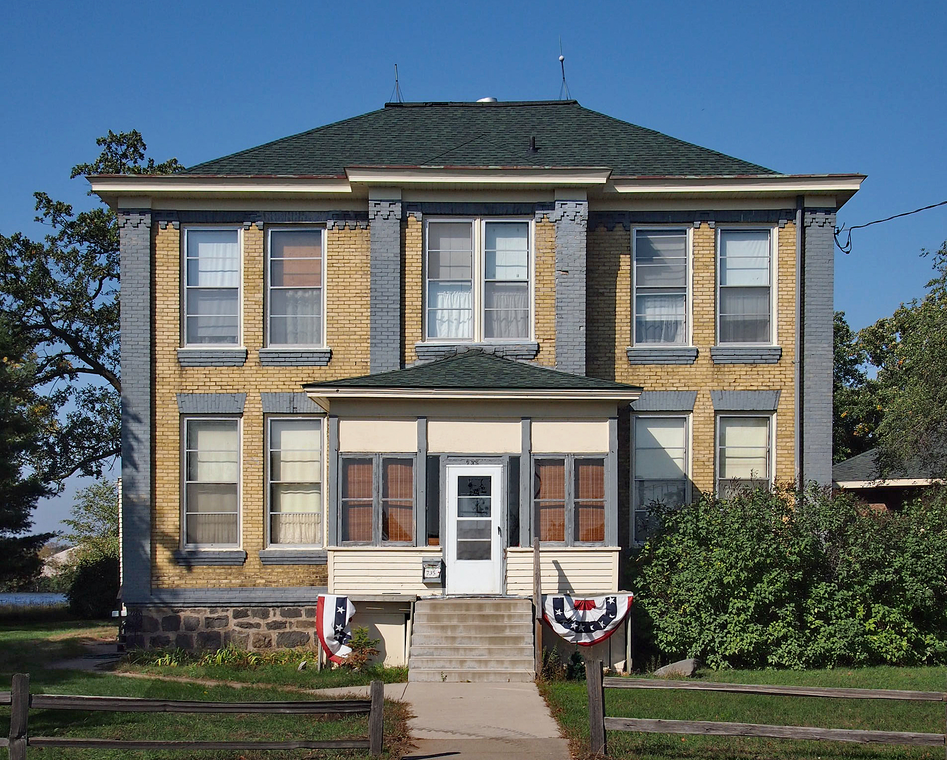 Pine Tree Lumber Company Office Building (now a private home), 735 1st St NE, Little Falls, Minnesota, USA. Viewed from the east-southeast.